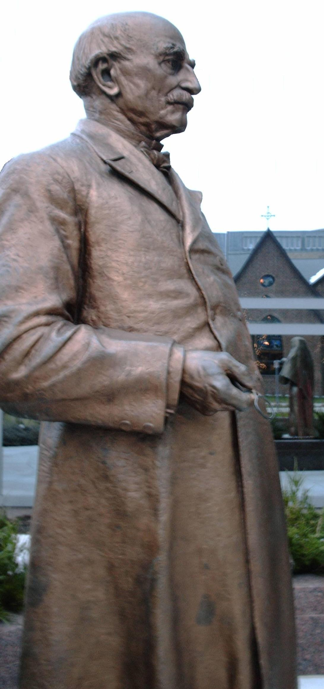 Bronze statue of Dr. William Worrall Mayo near the main buildings of the Mayo Clinic in Rochester, Minnesota (statue by Leonard Crunelle, 1911). Calvary Episcopal Church is reflected in window glass behind it. (Some distracting background detail was edited out.)